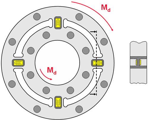 block diagram of torque flange